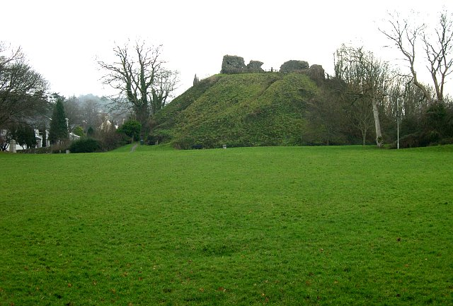 Plympton Castle. This was a motte & bailey castle. The motte is the high mound with the remains of fortifications on top of it, the bailey is the level area in front of it which is itself some 20 feet above the surrounding ground level. The castle was probably built in the years between 1100 and 1130. It was besieged on two occasions, in 1136 and 1224, both times when the local resident of the castle came into conflict with the King of the time. The bailey area is now used for local events and fairs.